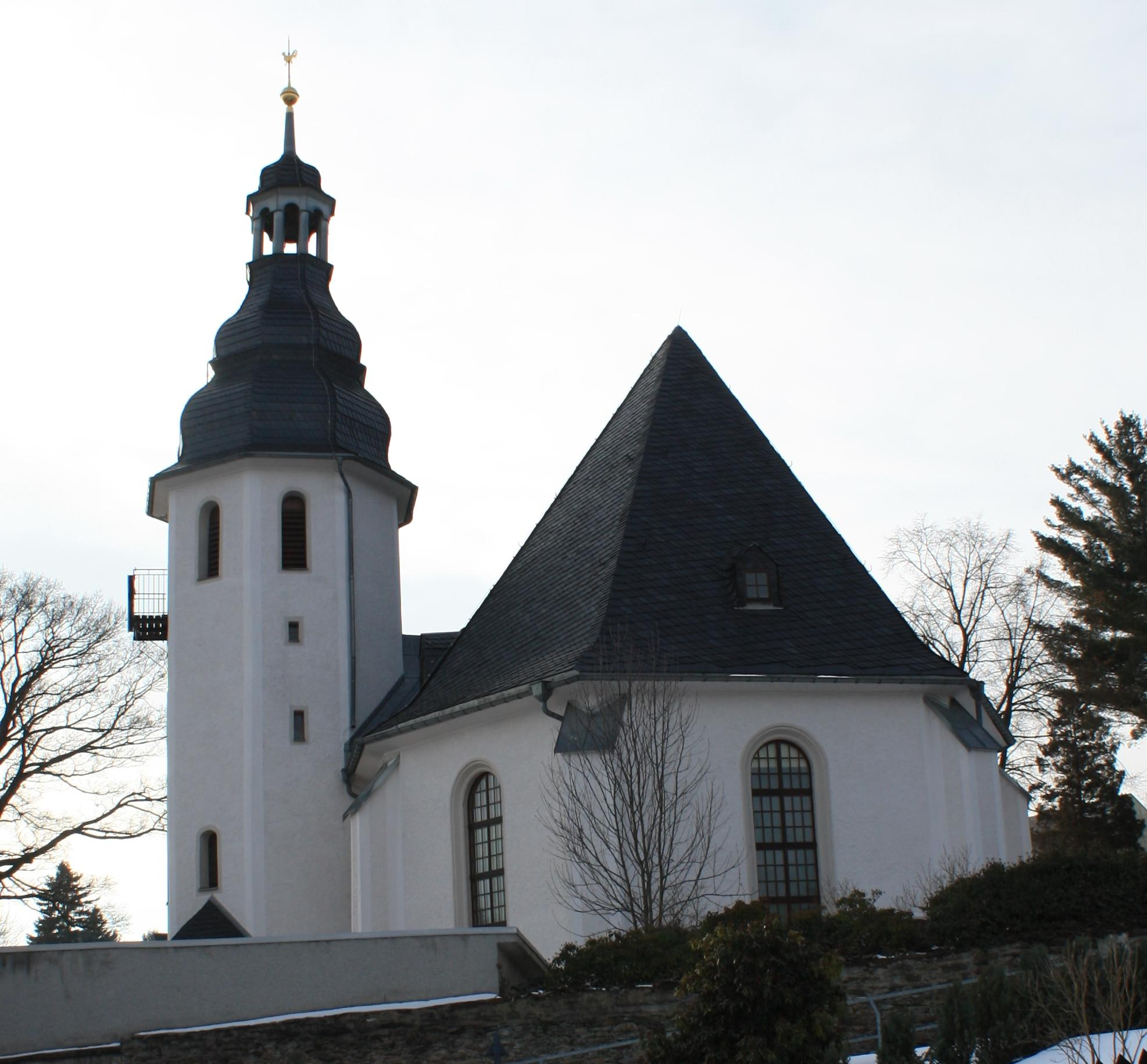 Zschorlau church